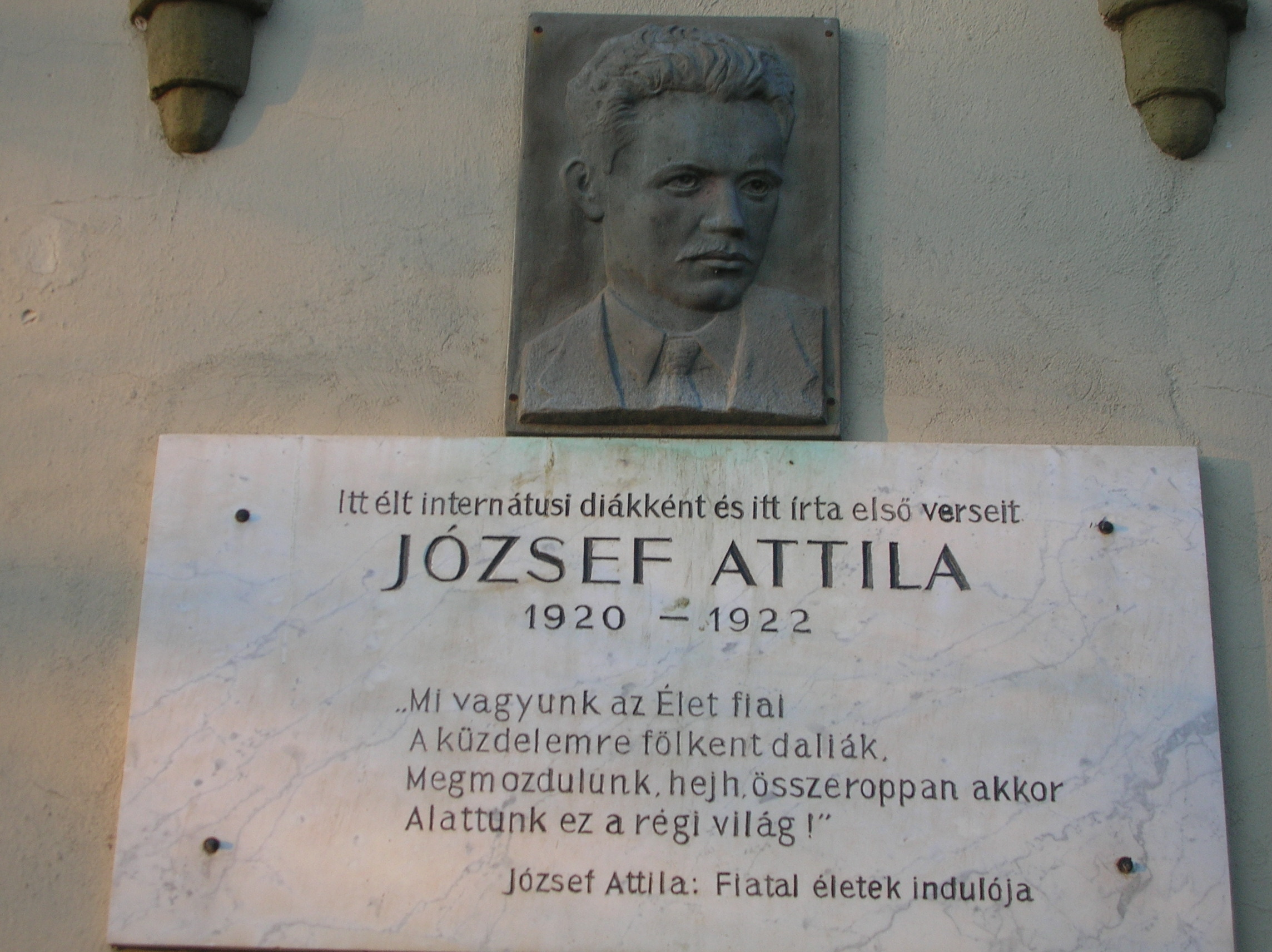 Memorial tablet and relief to Attila József, Hungarian poet on the wall of the building which functioned as boarding school where he also lived when he was a student in Makó.